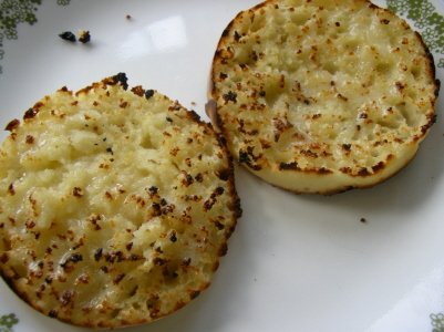 A split and toasted English muffin with butter.